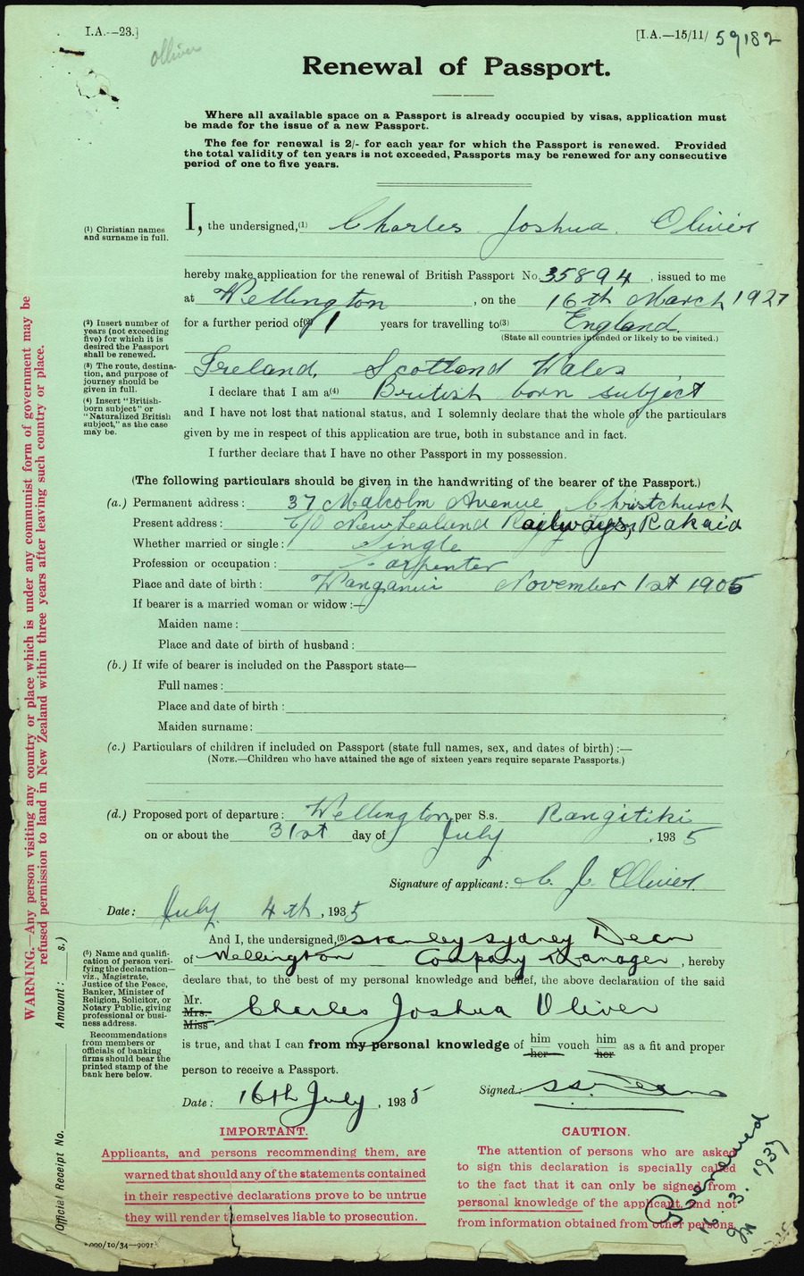 Archives New Zealand Reference: ACGO 8333 IA1 1350 / 15/11/59182